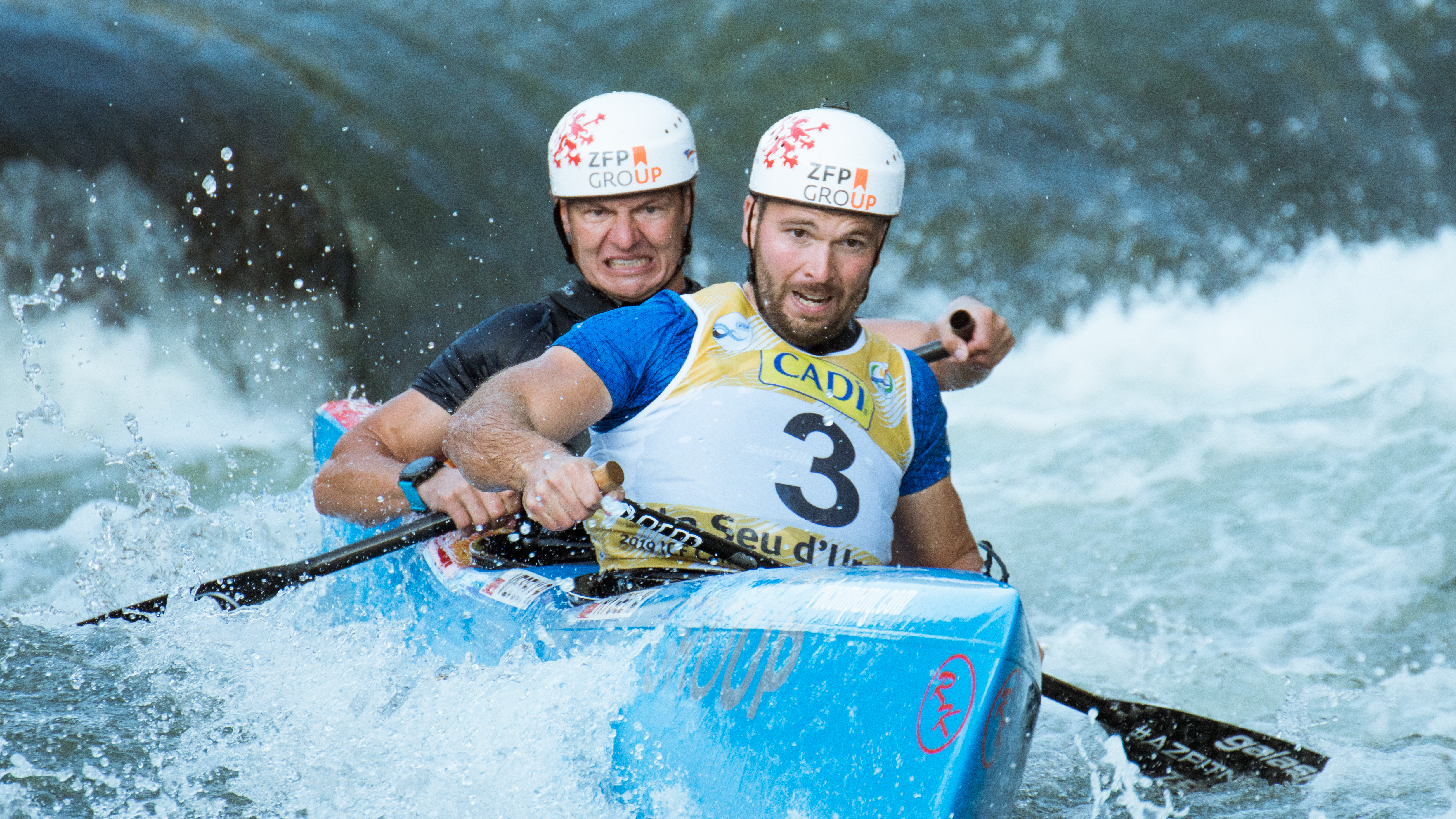 Marek Rygel and Petr Veselý during the 2019 Canoe Wildwater World Championships in La Seu d'Urgell, Spain.